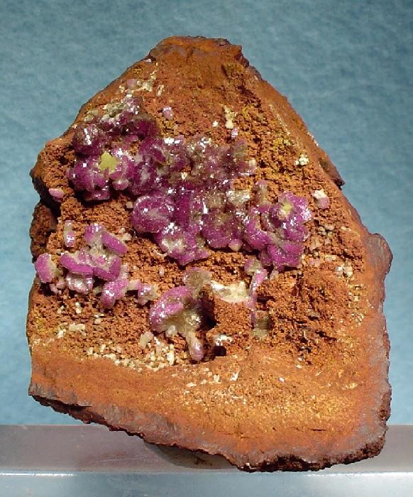 Adamite (Var.: Manganoan Adamite), Adamite Locality: Ojuela Mine, Mapimí, Municipio de Mapimí, Durango, Mexico (Locality at ) Size: 5.5 x 4.4 x 4.0 cm. Purple (manganoan) adamite is one of the three Holy Grail species from Mina Ojuela, along with legrandite and scorodite. This superb specimen features isolated, glassy, sprays and clusters of purple adamite crystals beautifully scattered on the sturdy, very 3-dimensional, gossan matrix, which has a very sculptural front "porch". Waxy, olive-green adamite sprays and botryoids are a nice contrast and compliment to this outstanding piece. This piece is from the one-time find in 1981 is highly representative for this very desirable manganoan-adamite species (erroneously once though to be cobaltoan). Ex. Consie Prince Stoudt Collection.